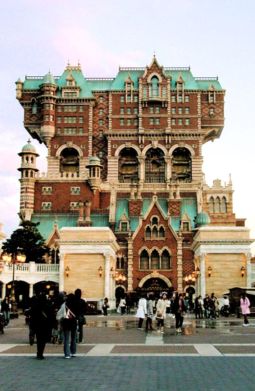 Tower of Terror at Tokyo DisneySea, Japan